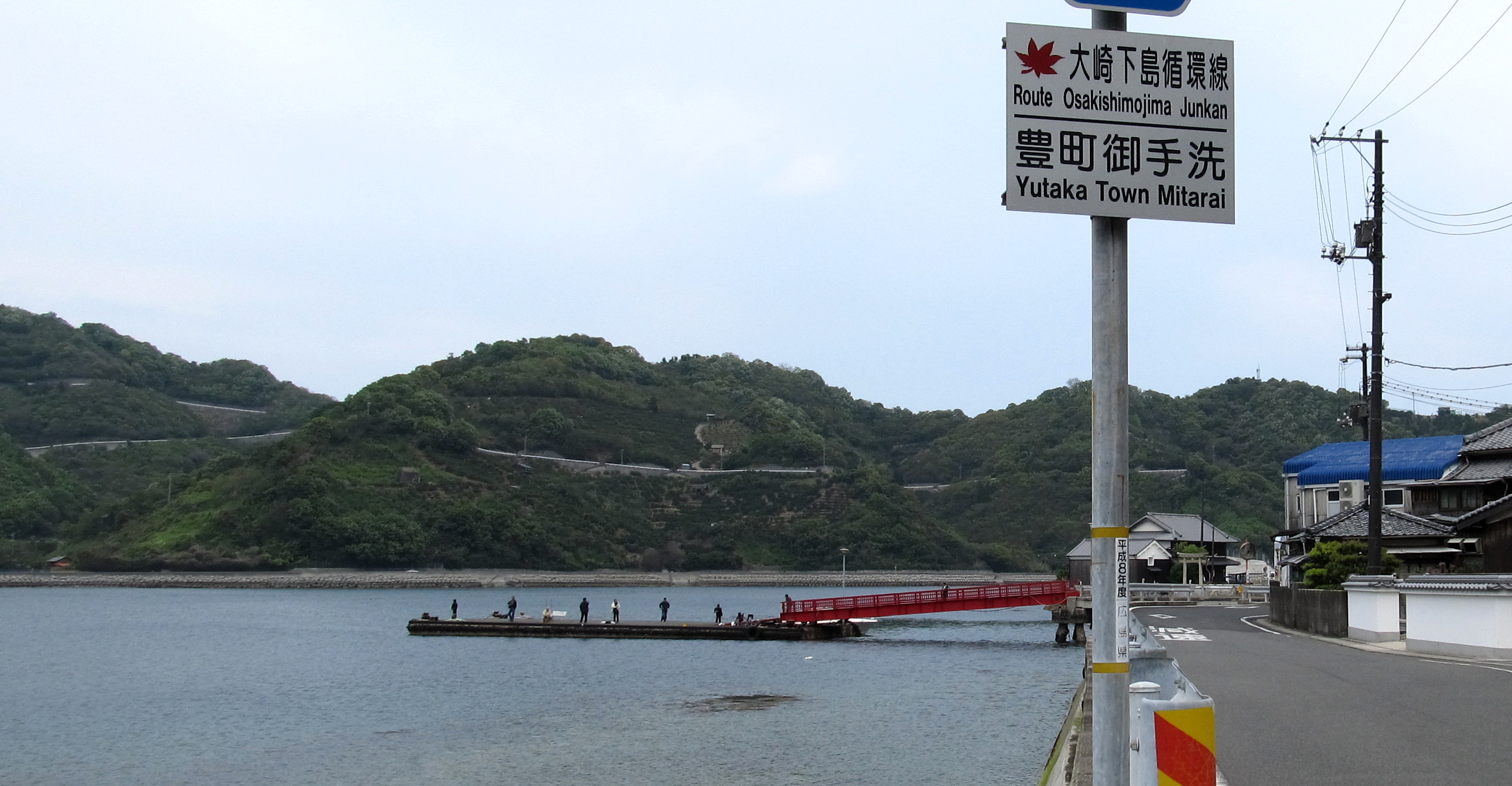 View from the island Ōsaki-shimojima in Hiroshima Prefecture, Japan. Citrus groves can be seen on the hillside.